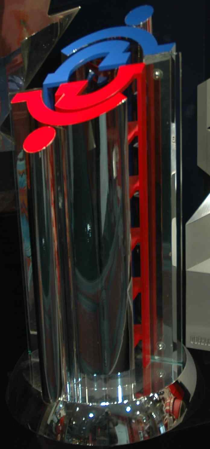 The World_Cup_of_Hockey